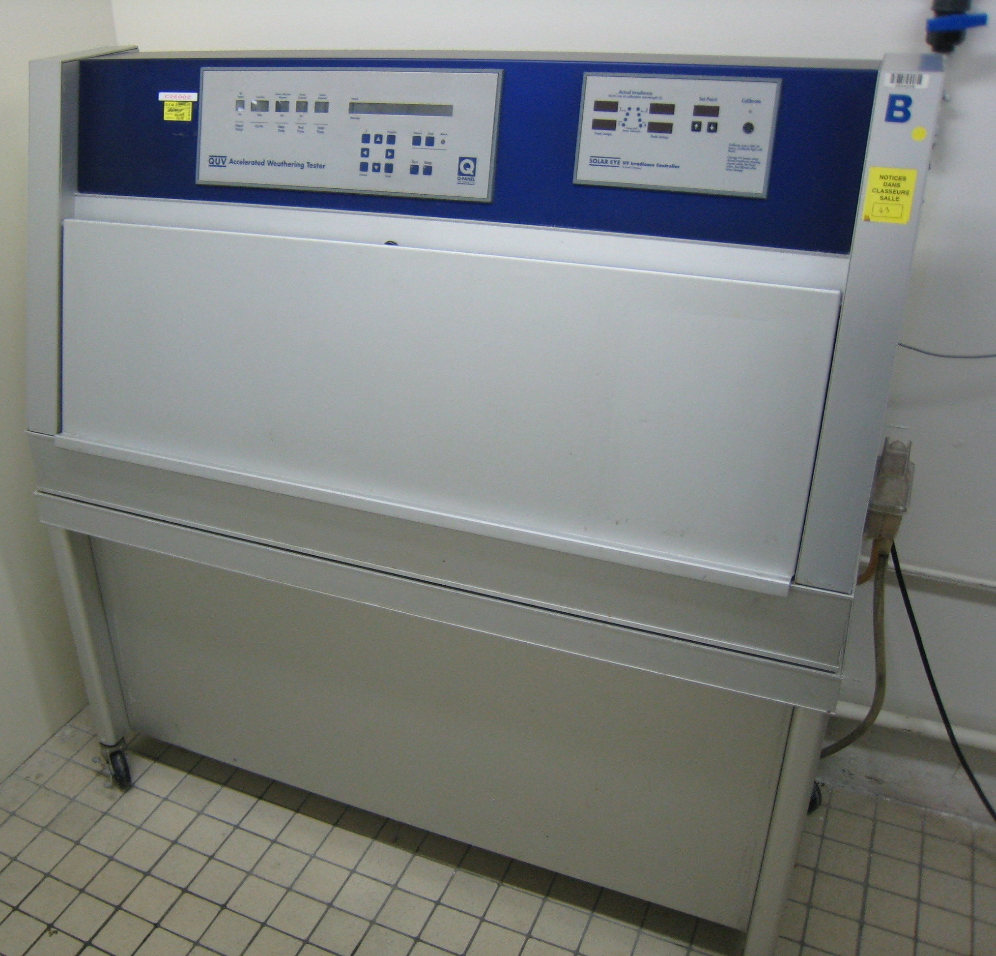 QUV™ accelerated weathering tester. It exposes materials to alternating cycles of UV light and moisture at elevated temperatures (at T≈60 °C for example). QUV is used for example to test the yellowing of coatings (such as white paints). QUV tester simulates the effects of sunlight, and dew and rain with condensing humidity. Up to 48 specimens (150 × 75 mm) can be tested.